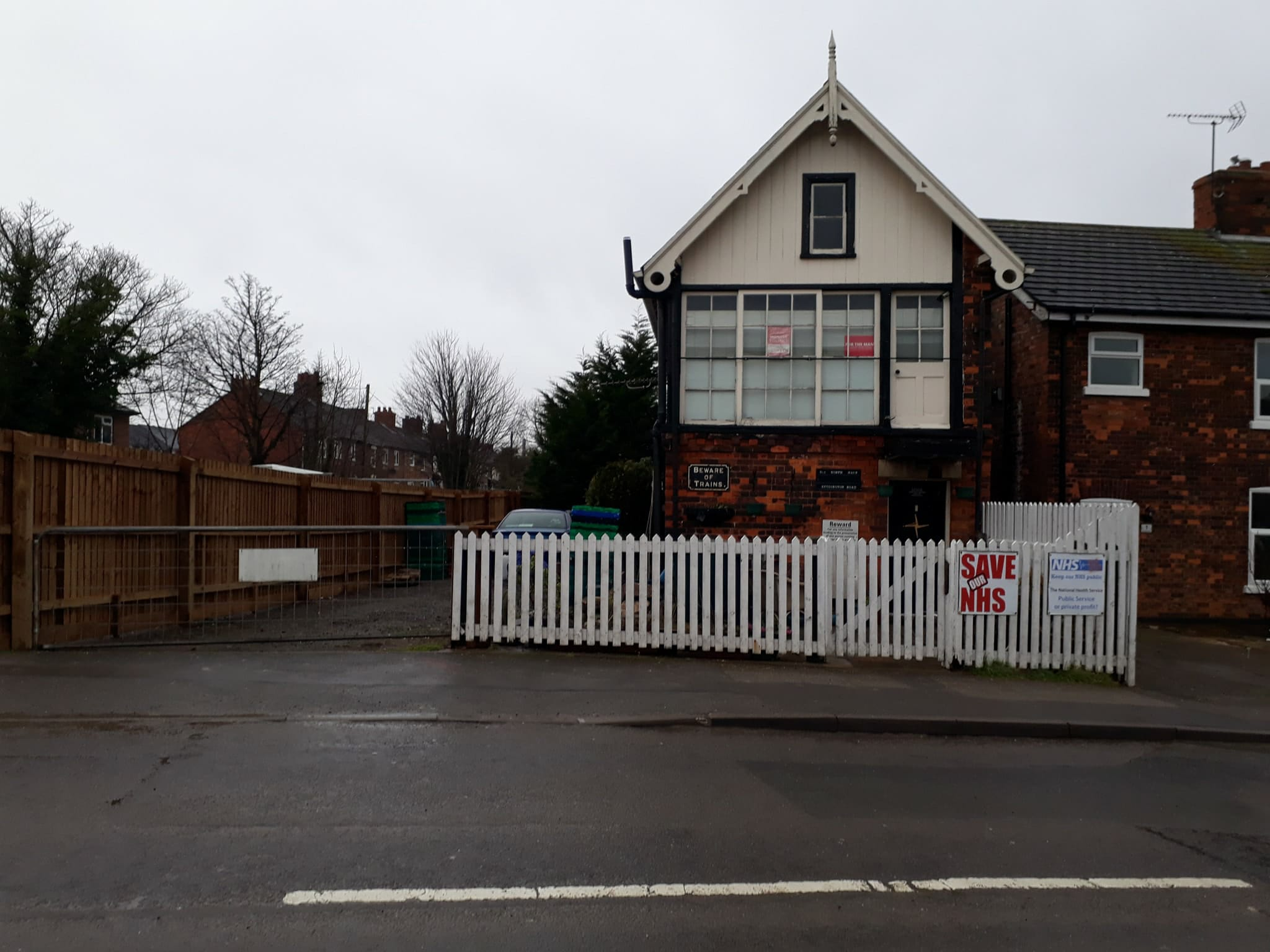 My own.